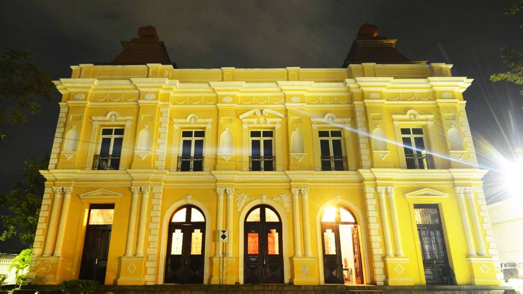 Teatro Francisco Gavidia En San Miguel